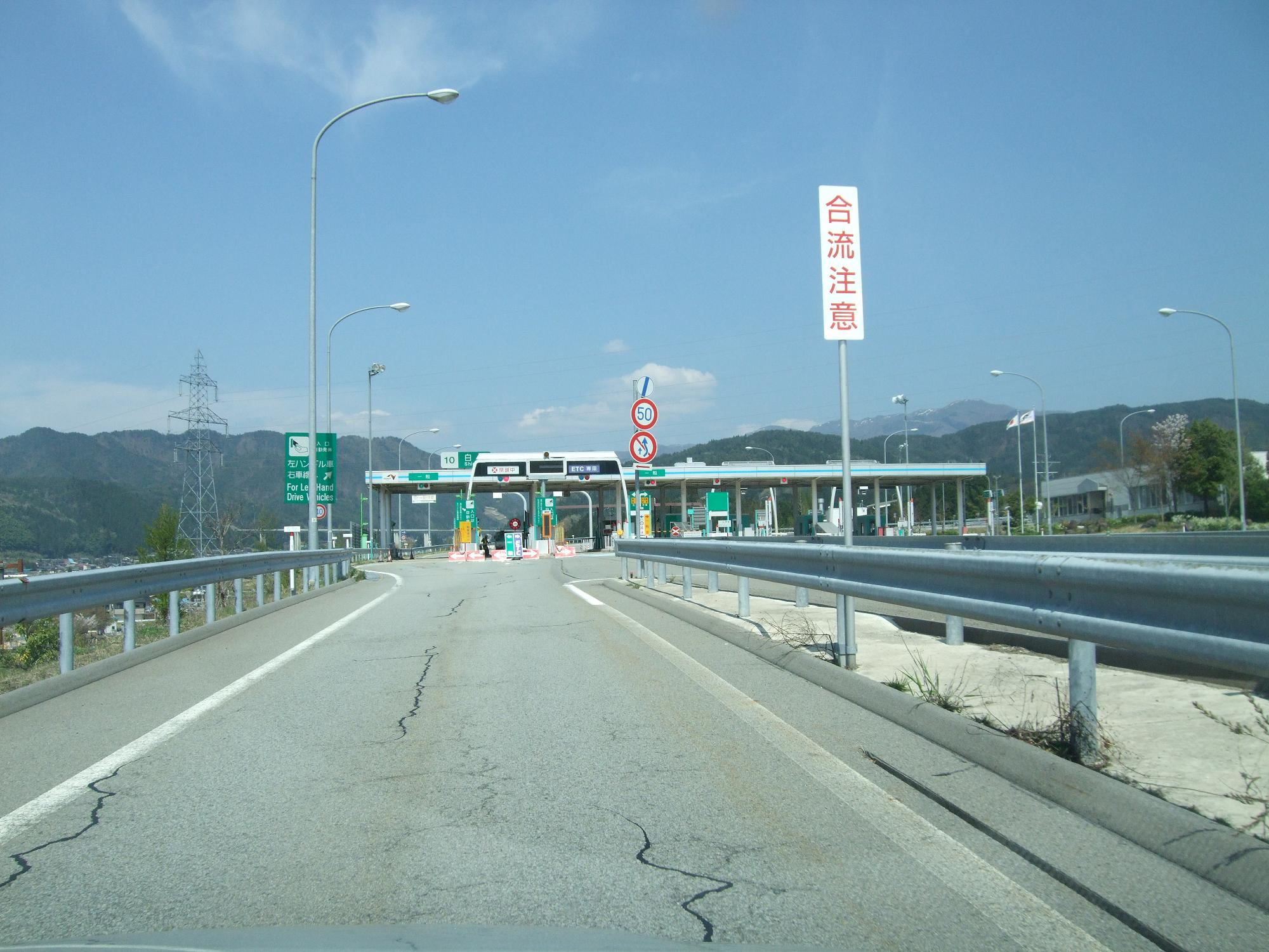 Toll gates at the Shirotori Interchange on the Tokai-Hokuriku Expressway